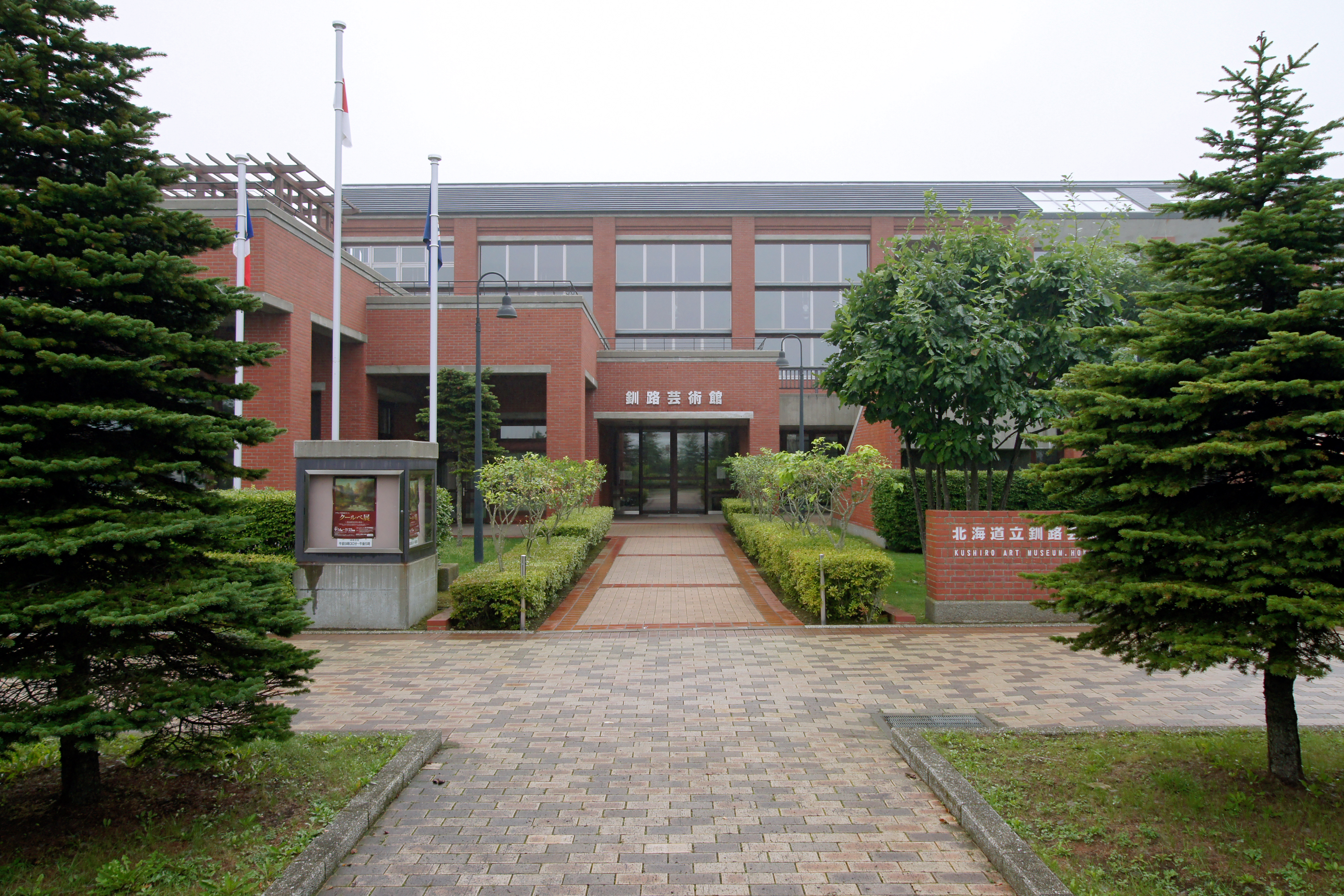 Kushiro Art Museum, Hokkaido in Kushiro City, Hokkaido prefecture, Japan